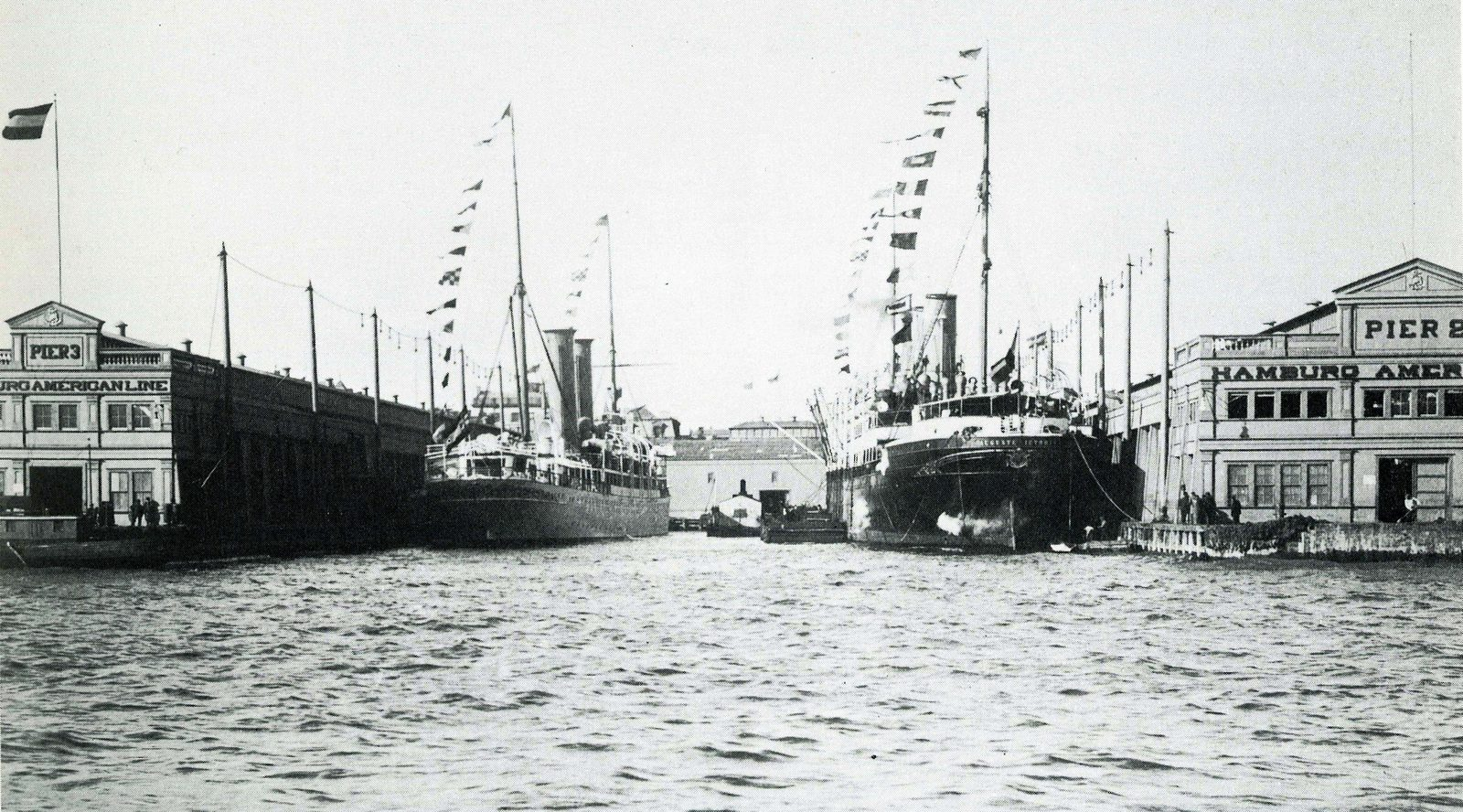 Hapag-Piers 2 and 3 in Hoboken, New Jersey with Prinzessin Victoria Luise on Pier 3 and Auguste Victoria on Pier 2.